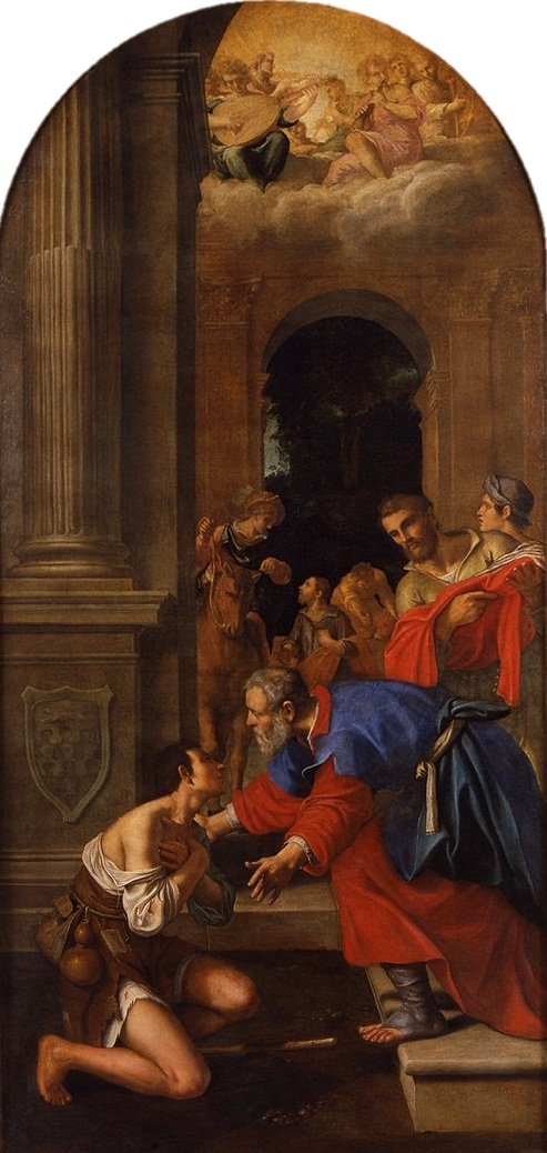 Return of the Prodigal Son